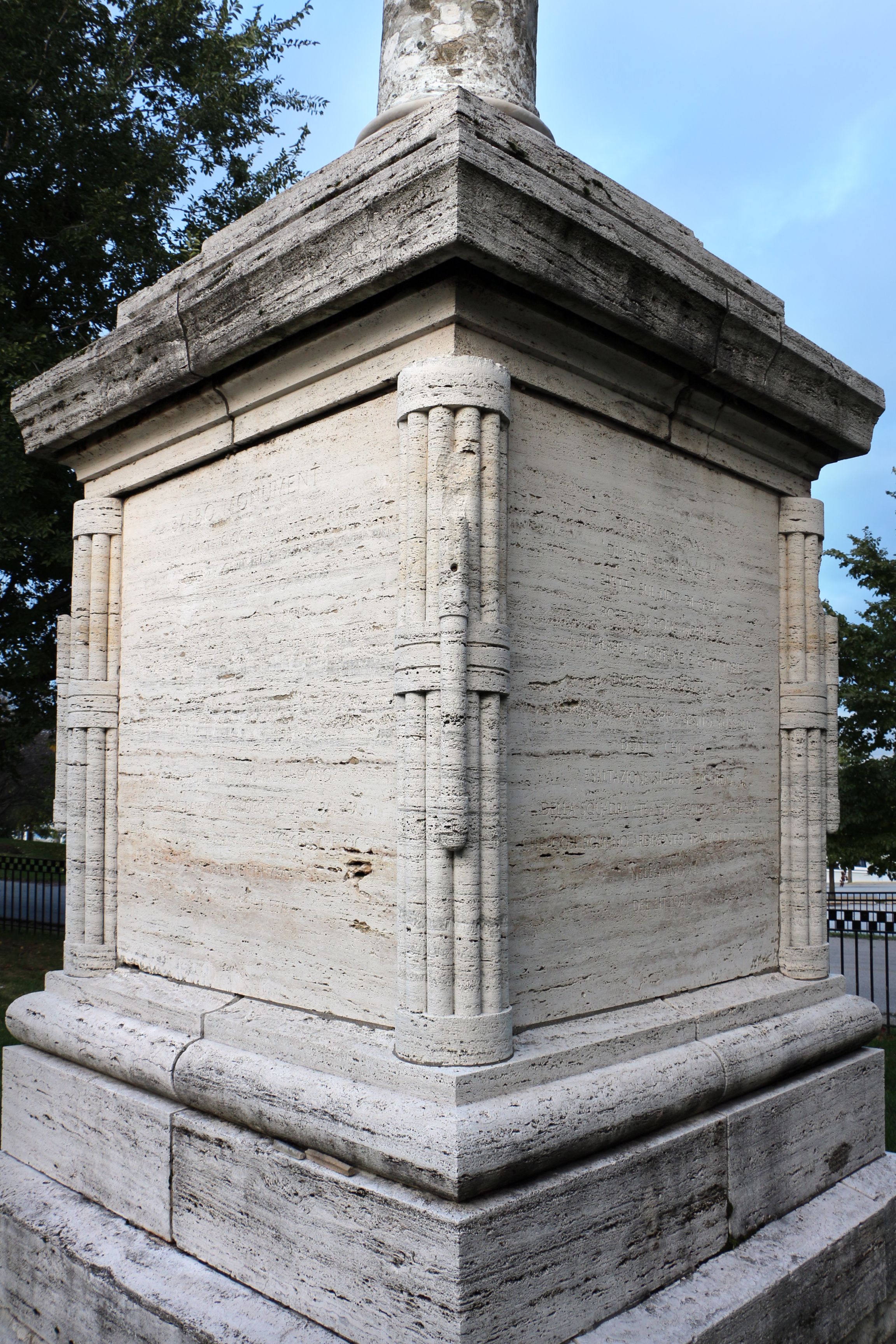 Chicago, IL, miscellany